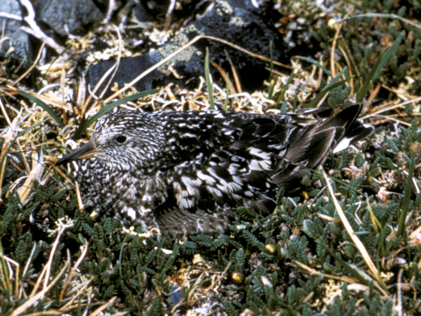 Surfbird, Aphriza virgata, incubating on nest--AK/RO/03080